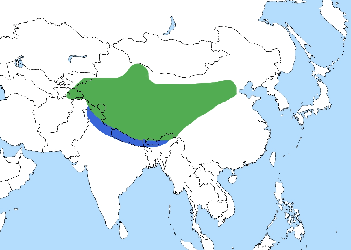 Ibidorhyncha struthersii: Distribution